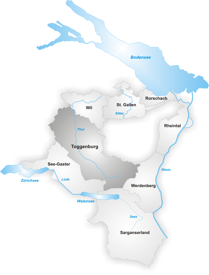 District Toggenburg